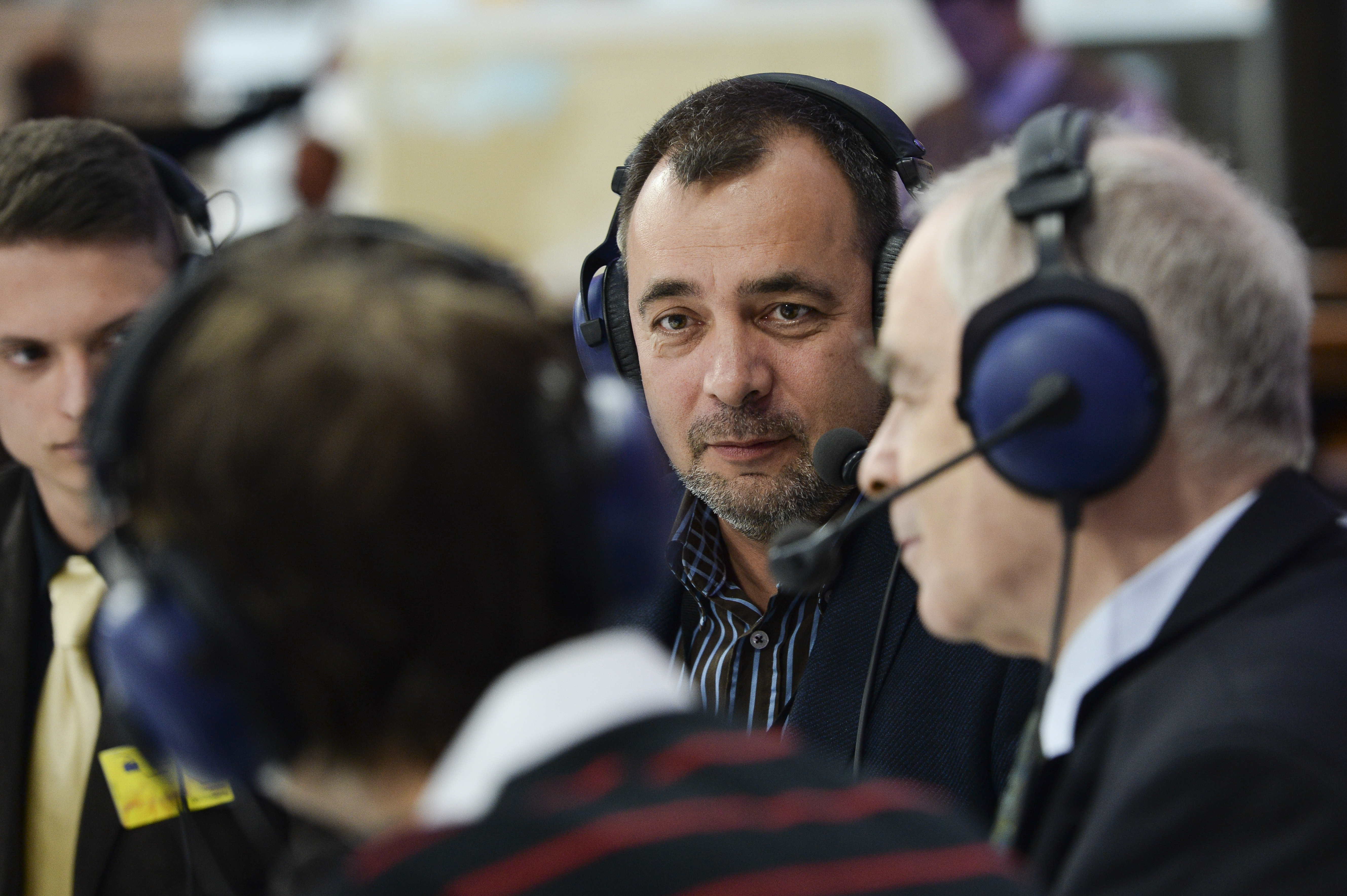 Euranet Plus, the leading radio network for EU news, hosted a “Citizens’ Corner” live debate on the “awareness of EU citizenship status and EU citizens’ rights” at the European Parliament in Brussels on November 5, 2014. The debate was jointly produced by Euranet Plus and MTVA, Hungary, member of the Euranet Plus network, and was moderated by journalist Balázs Náray from MTVA (in Hungarian) and Brian Maguire from the Euranet Plus News Agency in Brussels (in English). The debate also featured students from the Euranet Plus campus radio network (Zaneta Czyżniewska, Kampus Radio, Warsaw, Poland; Raymond Fustos, UBB Online Radio, Cluj, Romania). The debate was broadcast live. The public is invited to continue debating the recording of the live stream on our Facebook page event page or on Twitter using the hash tag #CitizensCorner. Part 1/2 | Hungarian | 12h30 – 13h15 CET | moderator Balázs Náray | guests: Andor DELI, MEP, Hungary, Group of the European People’s Party (Christian Democrats), EPP website Tamás MESZERICS, MEP, Hungary, Group of the Greens/European Free Alliance, Faccebook György SCHÖPFLIN, MEP, Hungary, Group of the European People’s Party (Christian Democrats), website Pál CSÁKY, MEP, Slovakia, Group of the European People’s Party (Christian Democrats) Get all the details about th debate